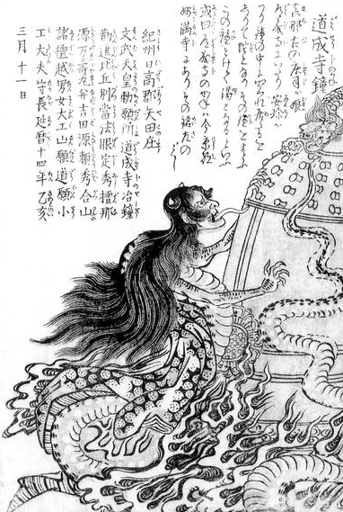 Dōjōjinokane (道成寺鐘, Kiyohime, a woman who transformed into a serpent-demon out of the rage of unrequited love) from the Konjaku Hyakki Shūi (今昔百鬼拾遺)